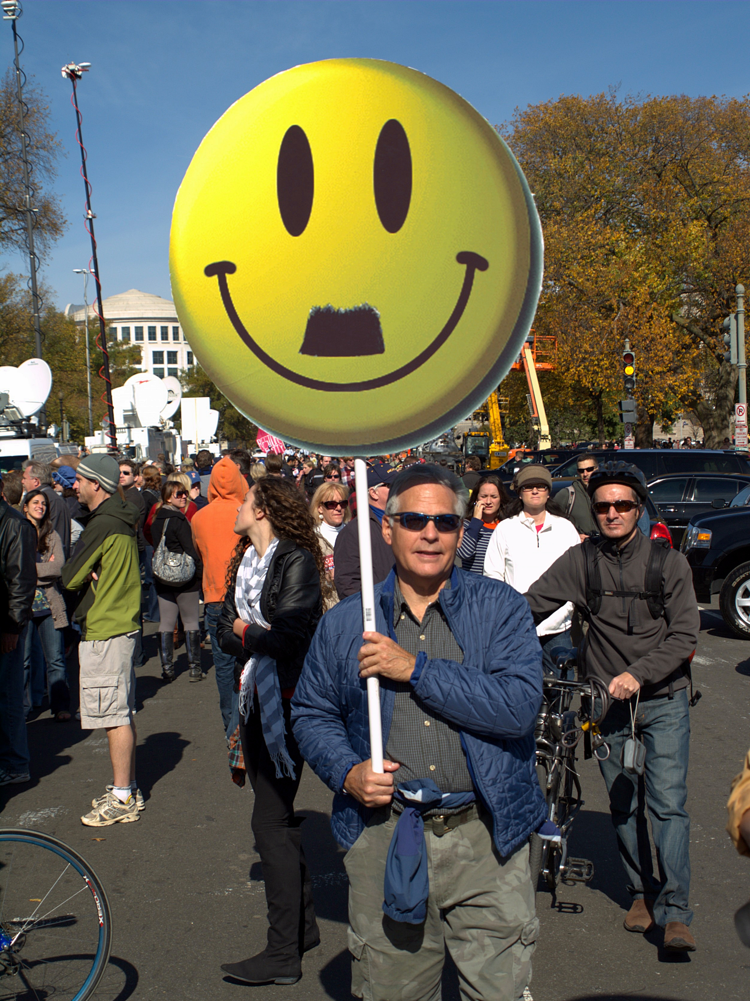 Photographs of the Rally to Restore Sanity and/or Fear.